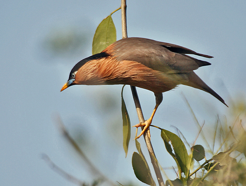 Brahminy Starling Sturnus pagodarum at/ near Hodal in Faridabad District of Haryana, India.